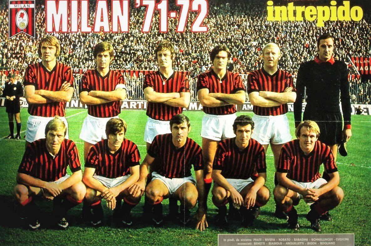 A line-up of Milan A.C. in the 1971–72 season, posing inside the San Siro Stadium in Milan, Italy. From left to right, standing: P. Prati, G. Rivera (captain), R. Rosato, G. Sabadini, K.-H. Schnellinger, F. Cudicini; crouched: R. Benetti, G. Biasiolo, A. Anquilletti, A. Bigon, R. Sogliano.